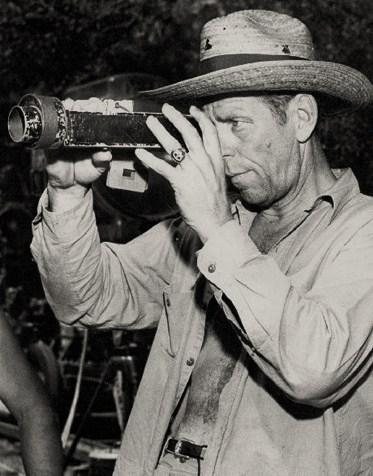 This is a photo of Leonard Smith, cropped.